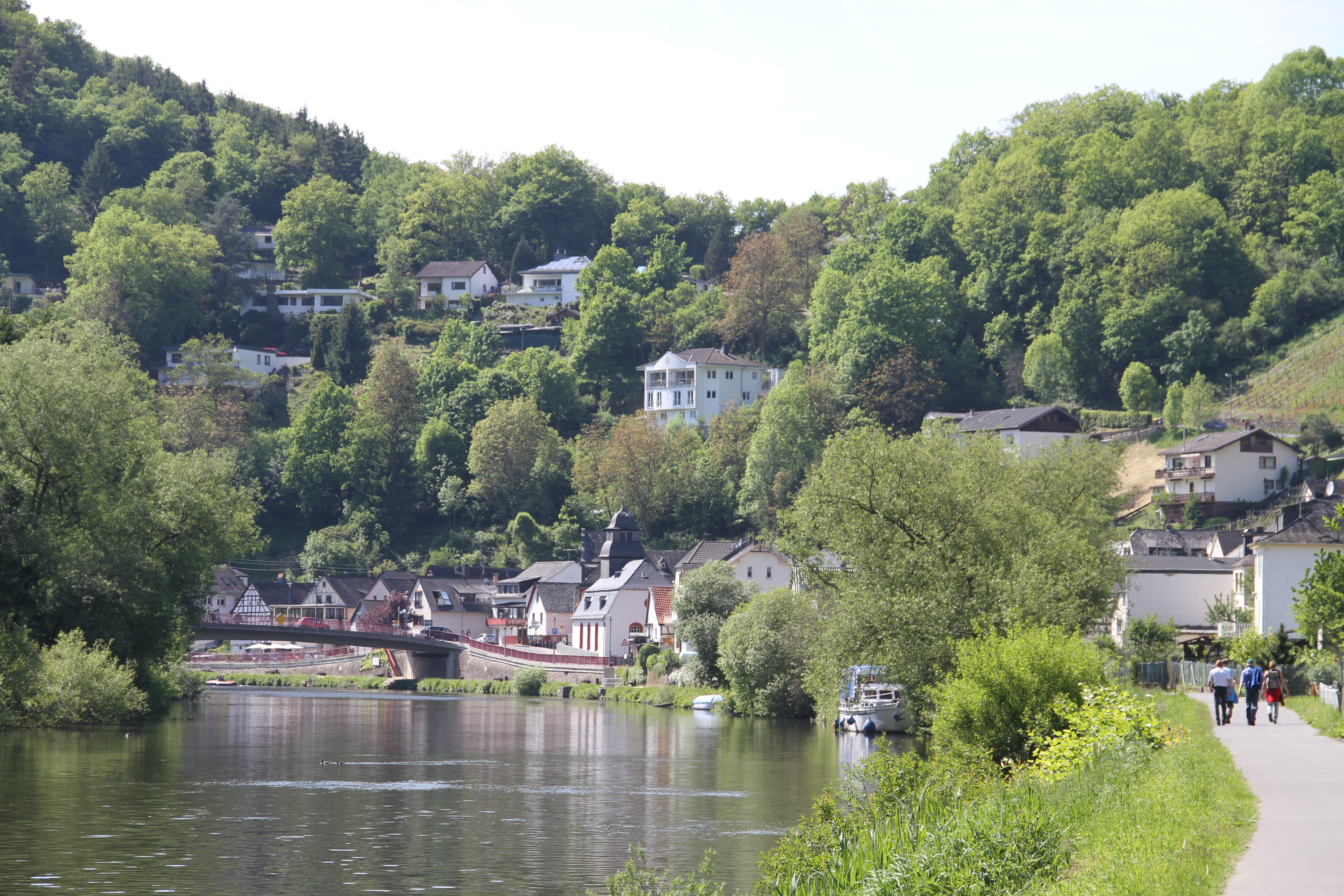 Obernhof seen from the east (May 2012)